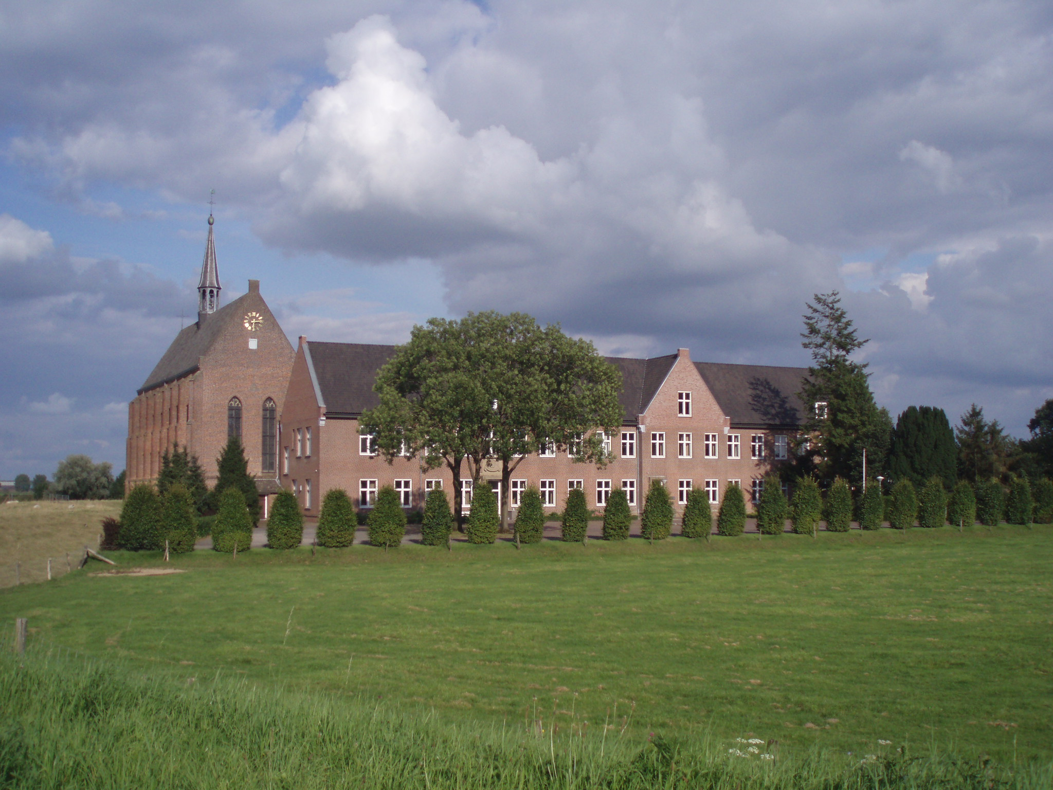 Monastery in Sint Agatha, Netherlands